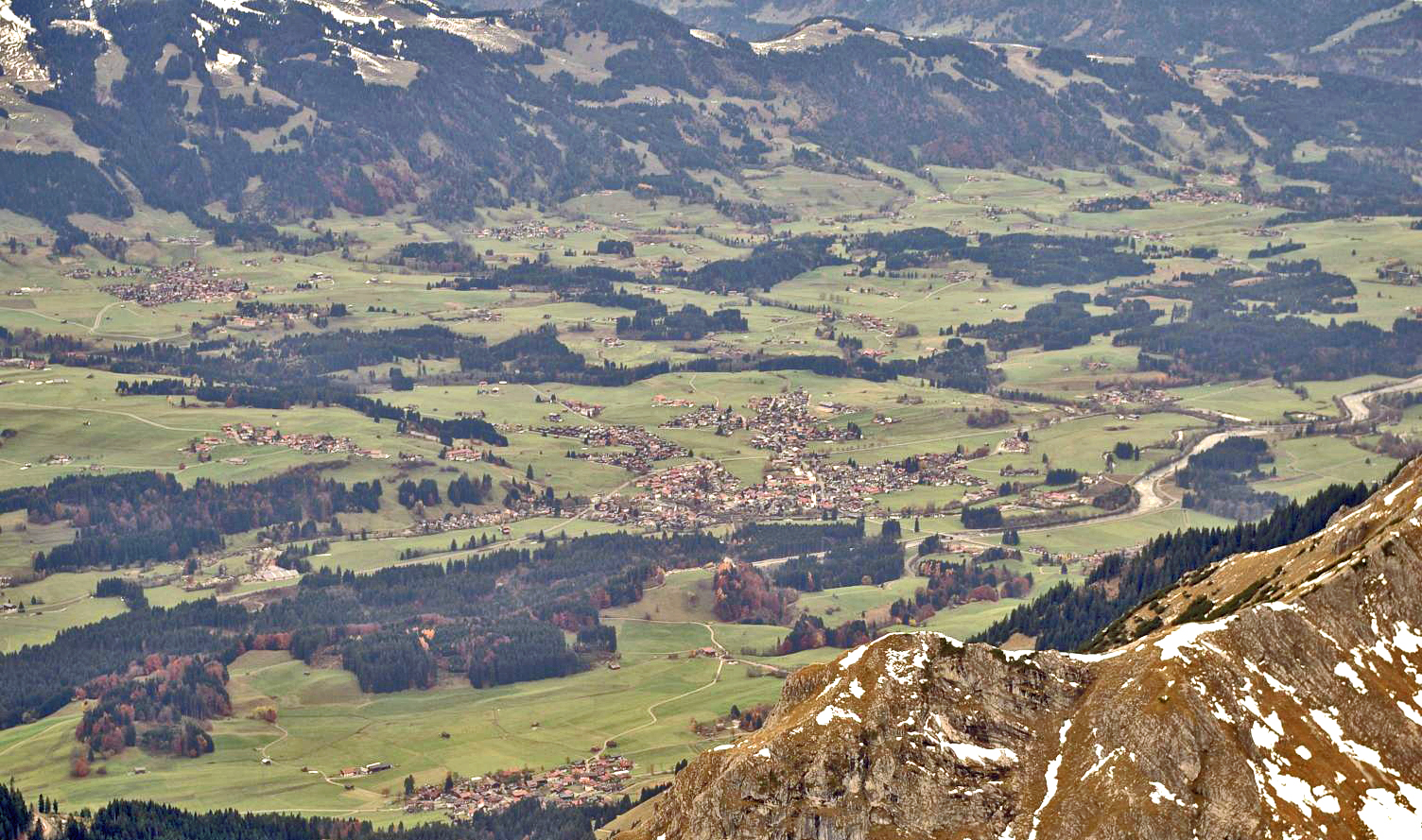 Fischen im Allgäu from the top of the Nebelhorn.